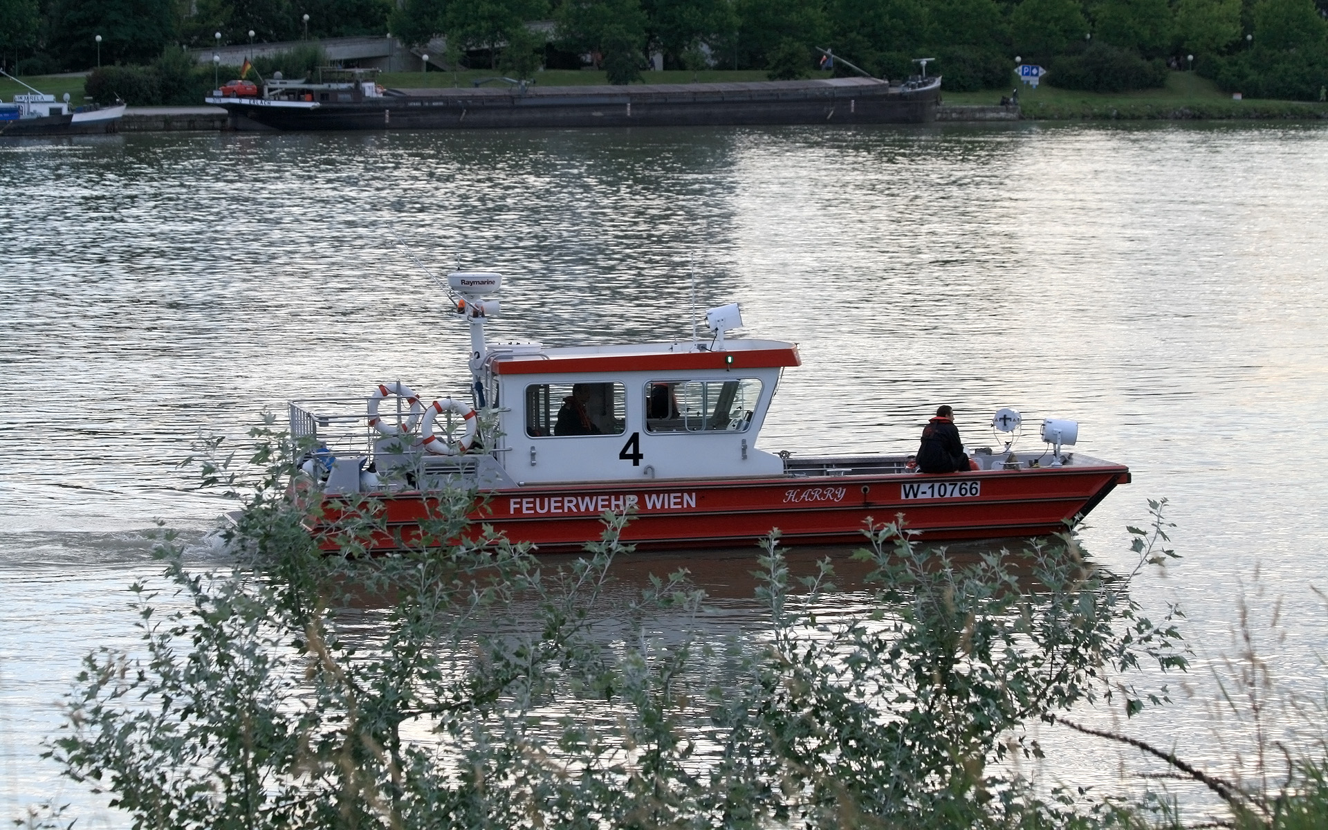 Austria, Vienna, Danube